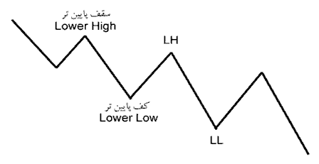 Down Trend